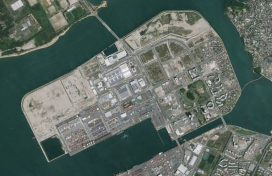 Satellite view